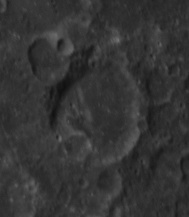 Oblique view of Mobius, on the far side of the moon. North is at top.